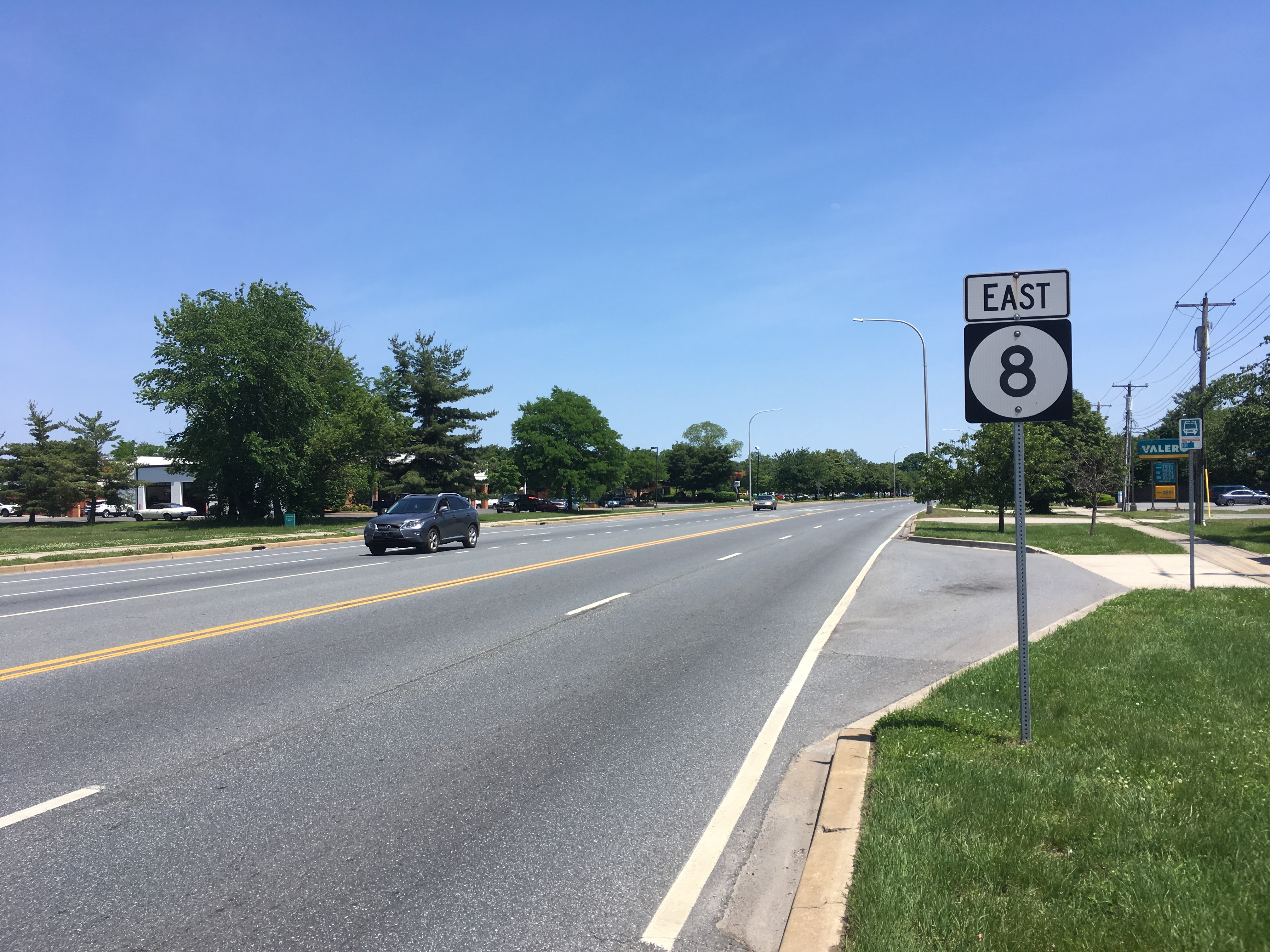 Eastbound Delaware Route 8 (Forrest Avenue) past the intersection with Kenton Road in Dover, Delaware